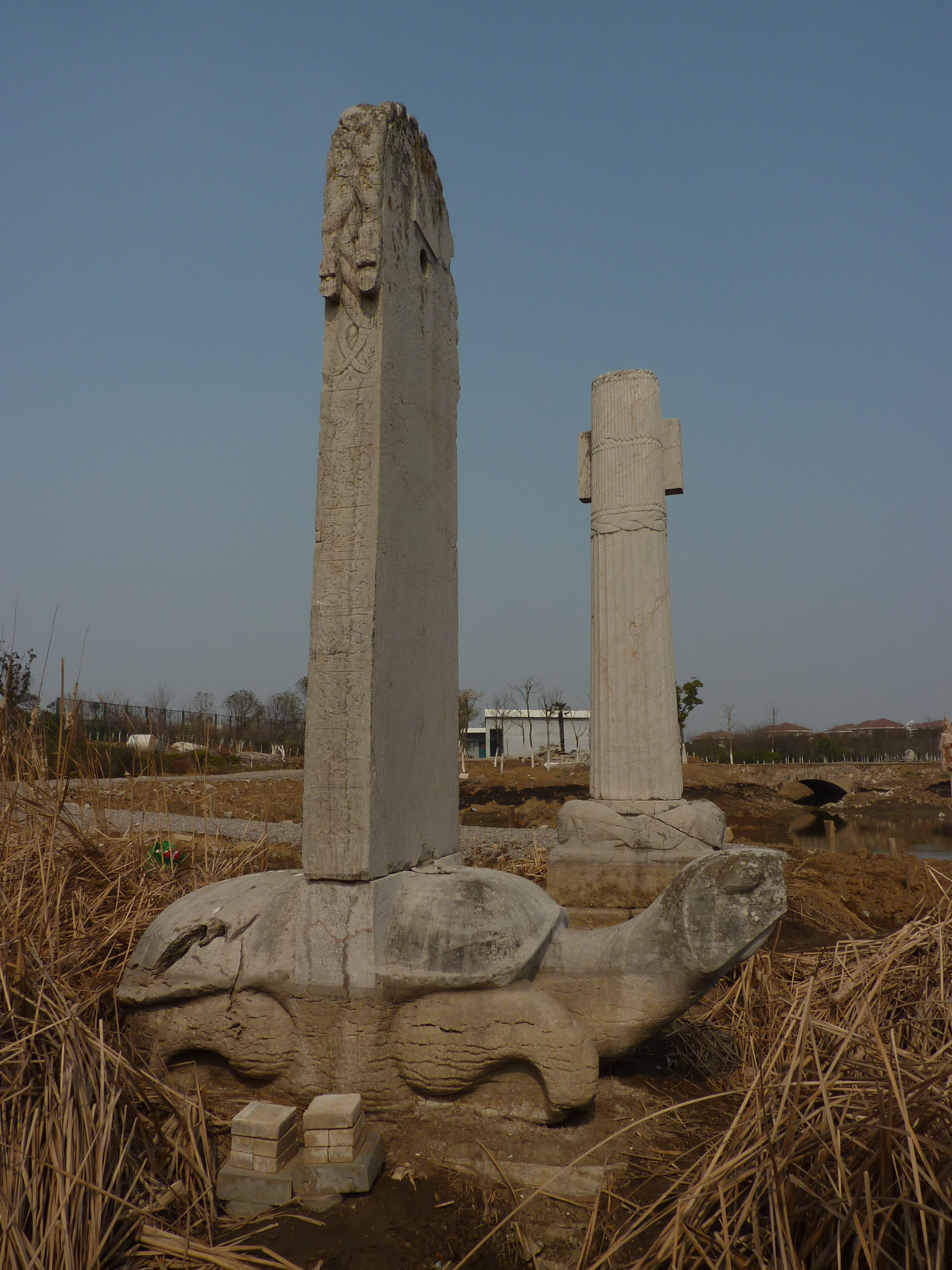 The statuary at the tomb of Xiao Hong. Looking at the turtles, one can notice that they must have been half-covered by water or mud.